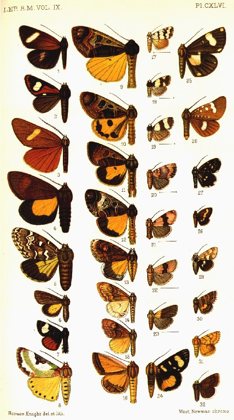 PLATE CXLVI. 1. Rhosus colombiana, f. Vol. IX. p. 413. Colombia. 2. R. aguirreri, f. p. 413. Argentina. 3. R. isabella, f. p. 414. Ecuador. 4. Aucula josioides, f. p. 420. Brazil. 5. A. magnifica, f. p. 422. Brazil. 6. A. sublata, m. p. 423. Brazil. 7. Psychomorpha euryrhoda, m. p. 425. Florida. H9310 Hamp., 1910 8. Ovios septentrionis, f. p. 427. Mashonaland. 9. Seudyra flavida, m. p. 432. W. China. 10. S. mandarina, m. p. 434. W. China, 11. S. bala, m. p. 436. Sikhim. 12. S. subalba, m. p. 438. W. China. 13. Zalissa pratti, f. p. 442. New Guinea. 14. Protoseudyra secunda, m. p. 444. W. China. 15. P. flava, m. p. 444. C. China. 16. Leucogonia cebeensis, m. p. 447. New Guinea. 17. Micrapatetis tripartita, f. p. 451. Queensland. 18. M. orthozona, m. p. 452. Queensland. 19. M. leucozona, f. p. 453. Queensland. 20. M. glycychroa, f. p. 453. Queensland. 21. M. purpurascens, f. p. 454. W. Australia. 22. M. pyrastis, f. p. 454. Madras. 23. M. flavipars, f. p. 454. Bombay. 24. Radinocera diversa, m. p. 457. W. Australia. 25. R. placodes, f p. 457. Tasmania. 26. Idalima hemiphragma, m. p. 460. W. Australia. 27. I. metasticta, m. p. 461. N. Australia. 28. Microhelia restrictalis, f.· p. 464. California. H11057 (Sm., 1900) 29. Heliothodes fasciata, m. p. 465. California. H11060 (Hy. Edw., 1875) 30. Xanthothrix callicore, m. p. 467. Syria. 31. X. neumoegeni, f. p. 468 California. H9771 Hy. Edw., 1881 32. Apaustis theophila, m. p. 470. Greece.